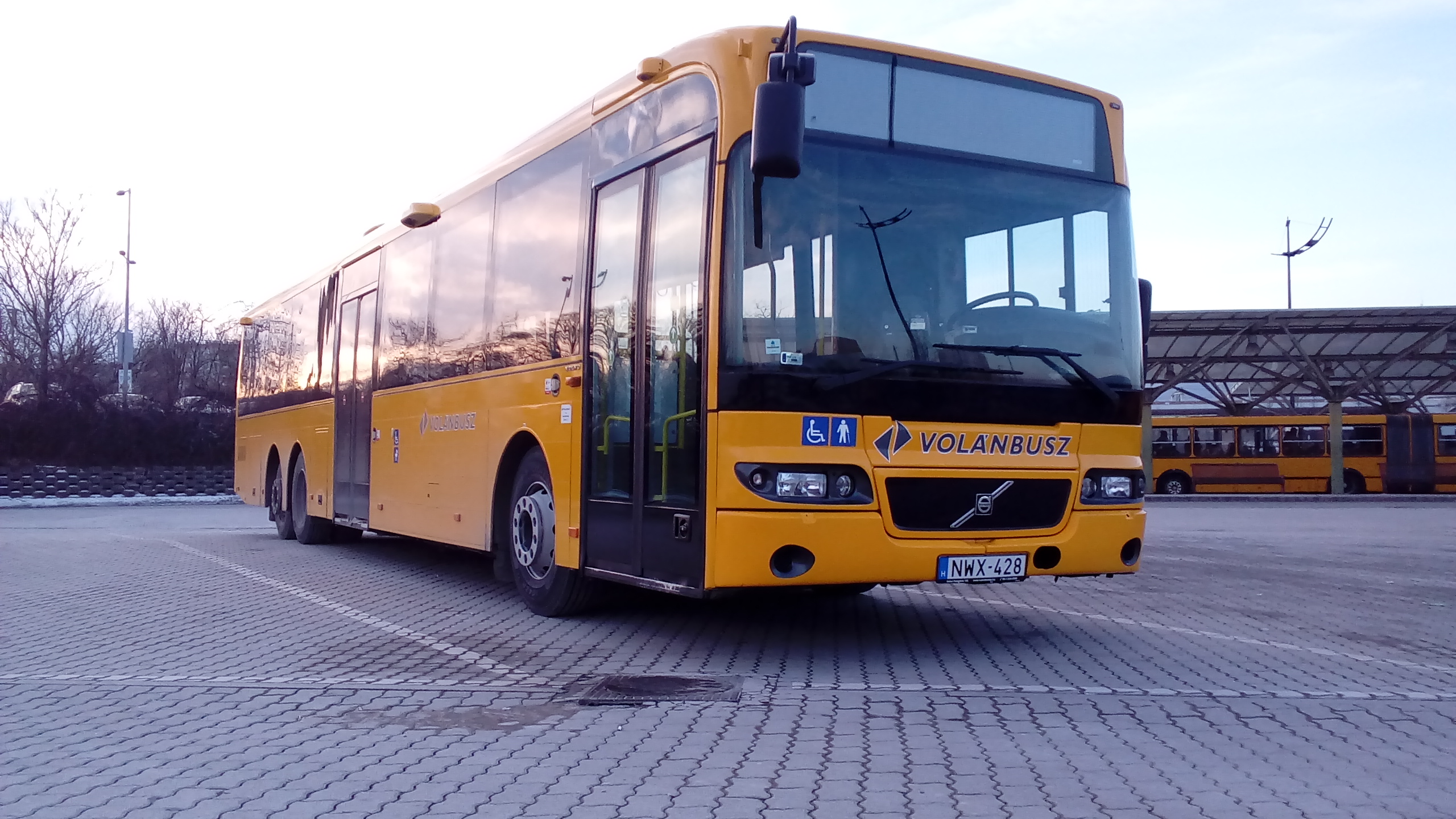 Volvo Saffle 8500